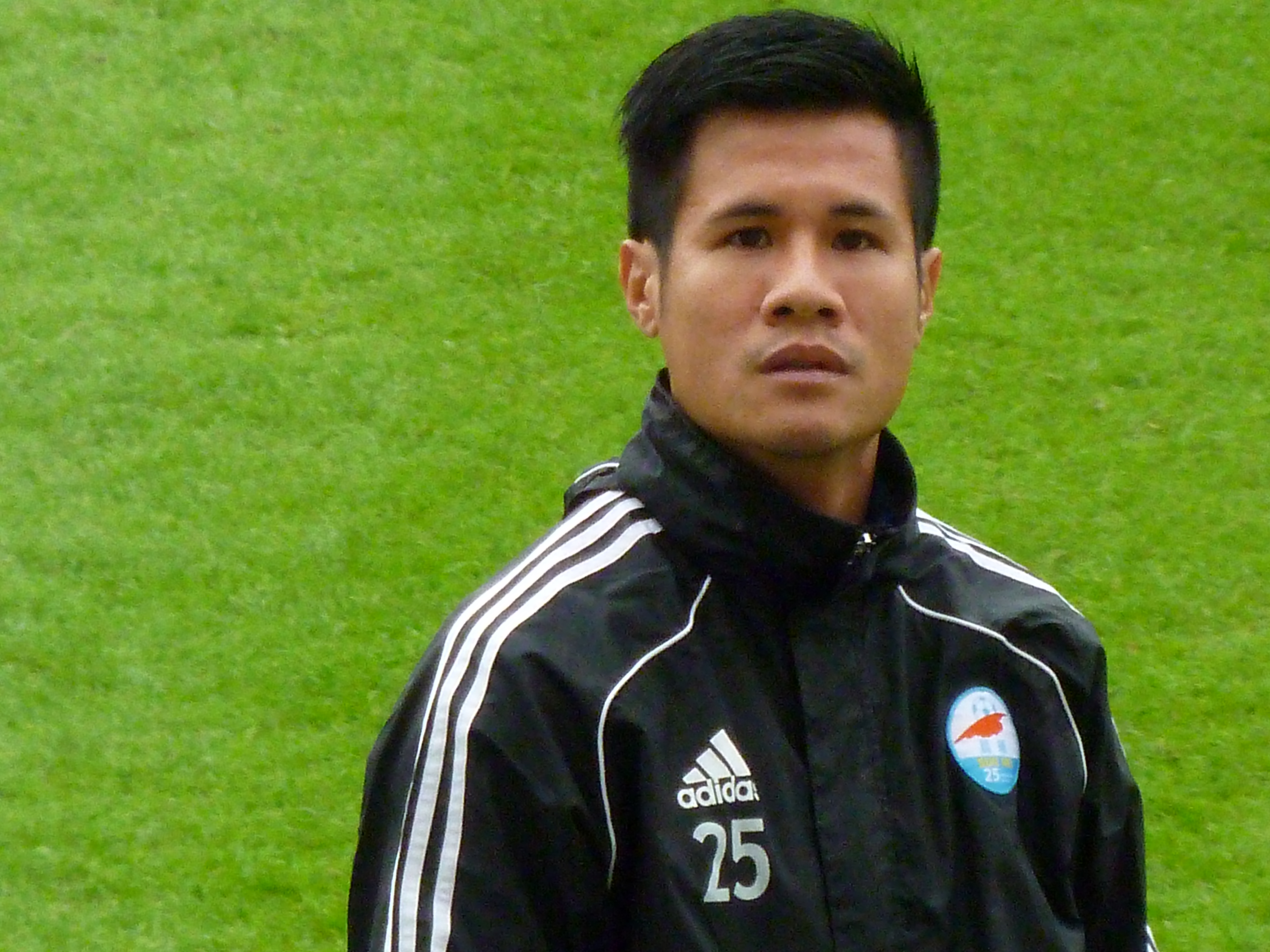 Wong Chun Yue (26 Feb 2012 Hong Kong League Cup quarter final, Citizen vs Sun Hei, Mong Kok Stadium)